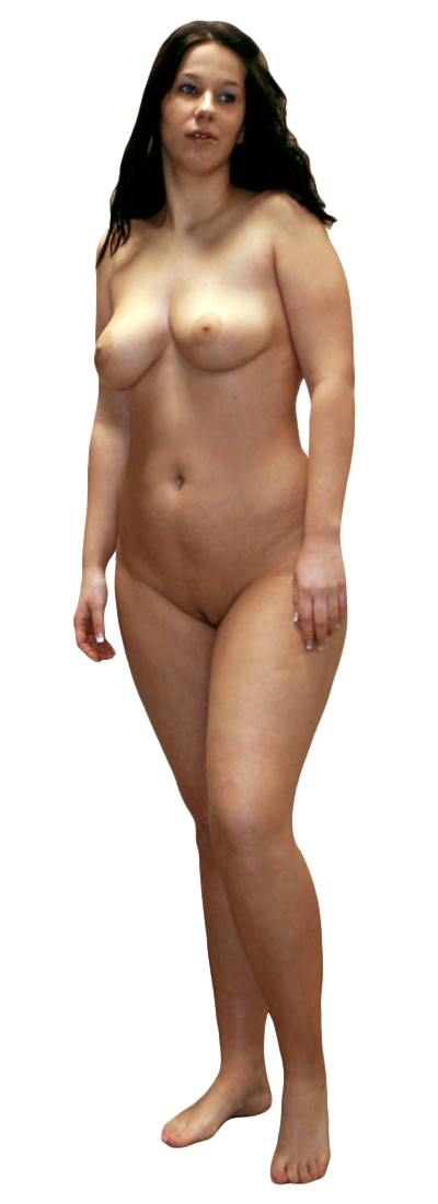 Picture of a woman for biology articles. The model disclaims rights on this photo and agrees to publication under the GFDL.